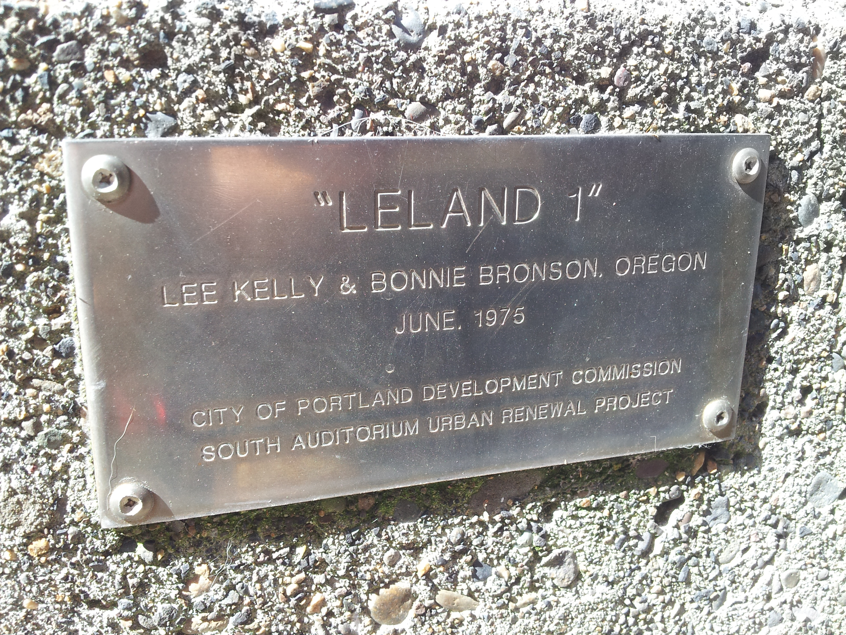 Plaque for Leland I by Lee Kelly and Bonnie Bronson, in Portland, Oregon in 2015